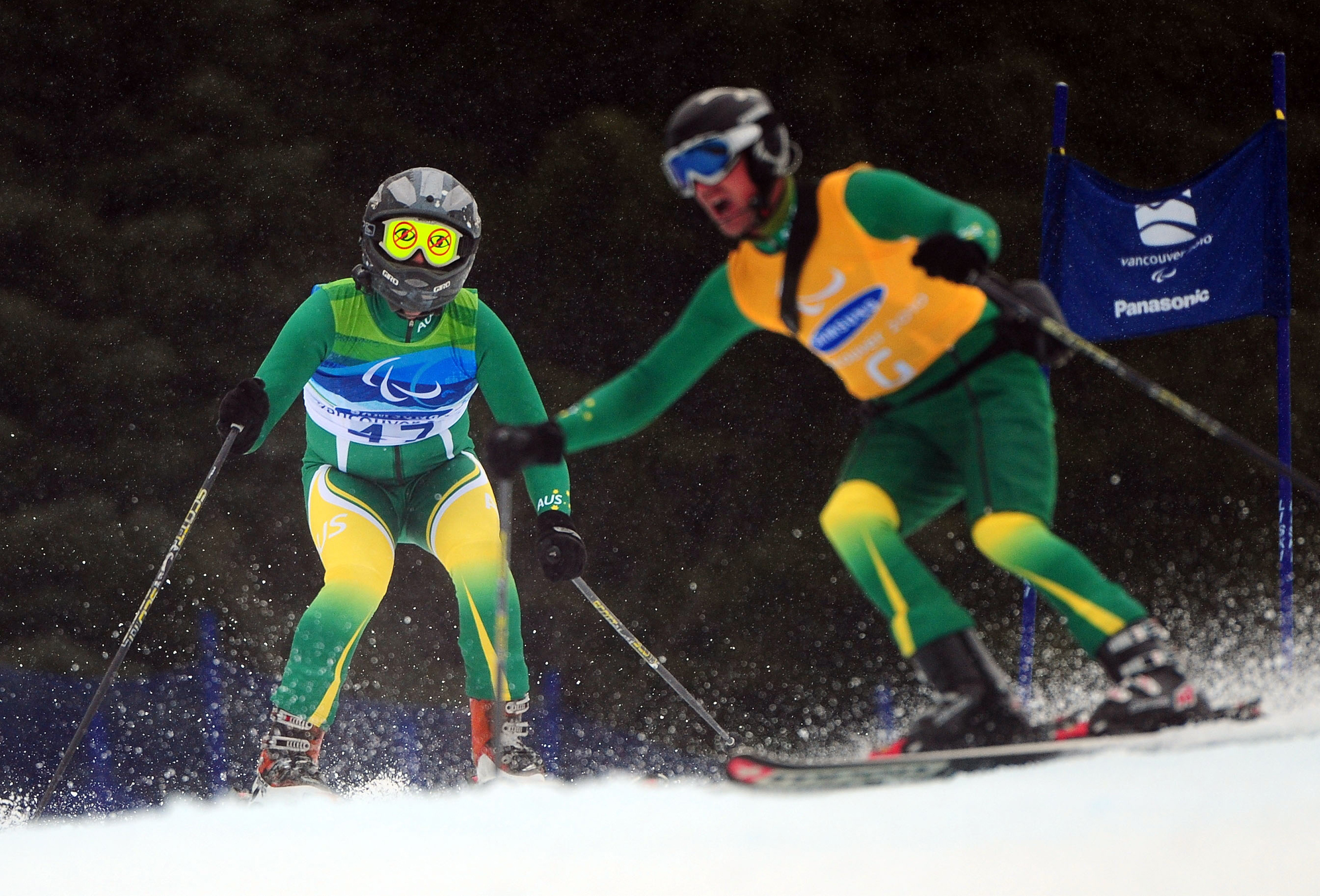 Blind skier Bart Bunting (left) and his sighted guide Nathan Chivers (right) in the Alpine Skiing slalom event at Whistler Creekside during the Vancouver 2010 Paralympic Winter Games.